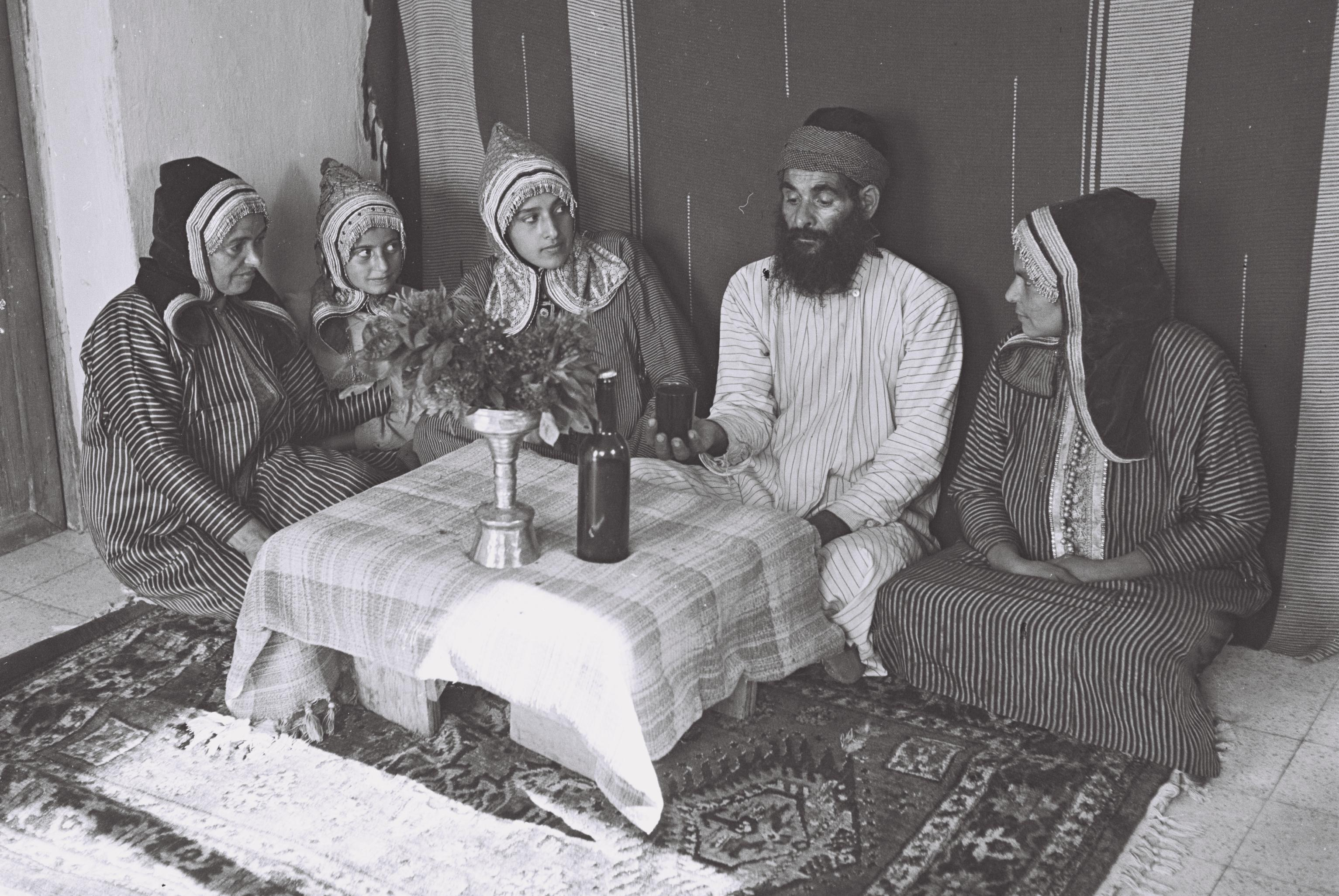 A YEMENITE FAMILY GATHERED AROUND THE TABLE DURING SHABBAT.משפחה תימנית מתכנסת סביב שולחן האוכל בליל שבת.